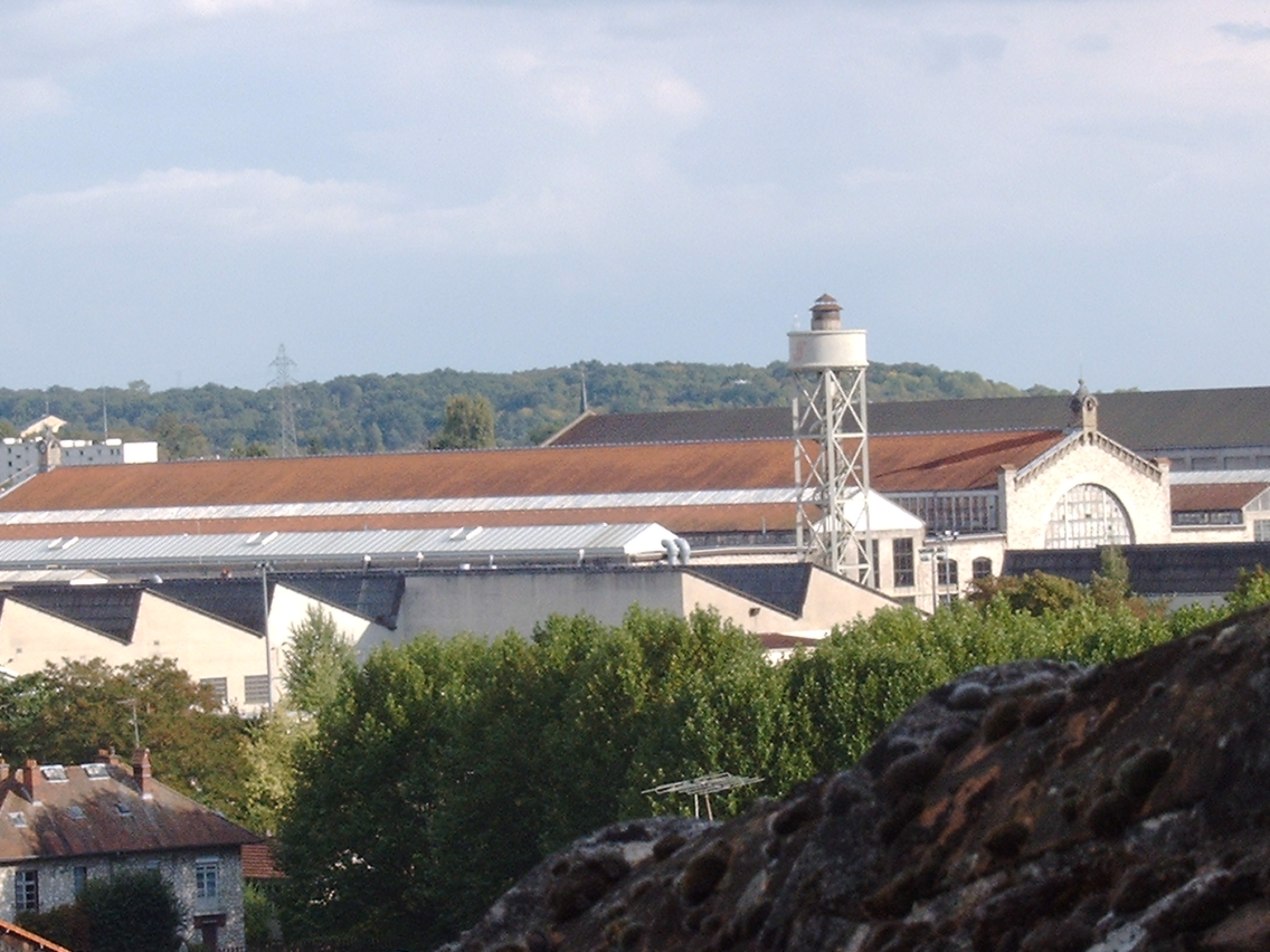 Schneider factory in Champagne-sur-Seine, Seine-et-Marne, France